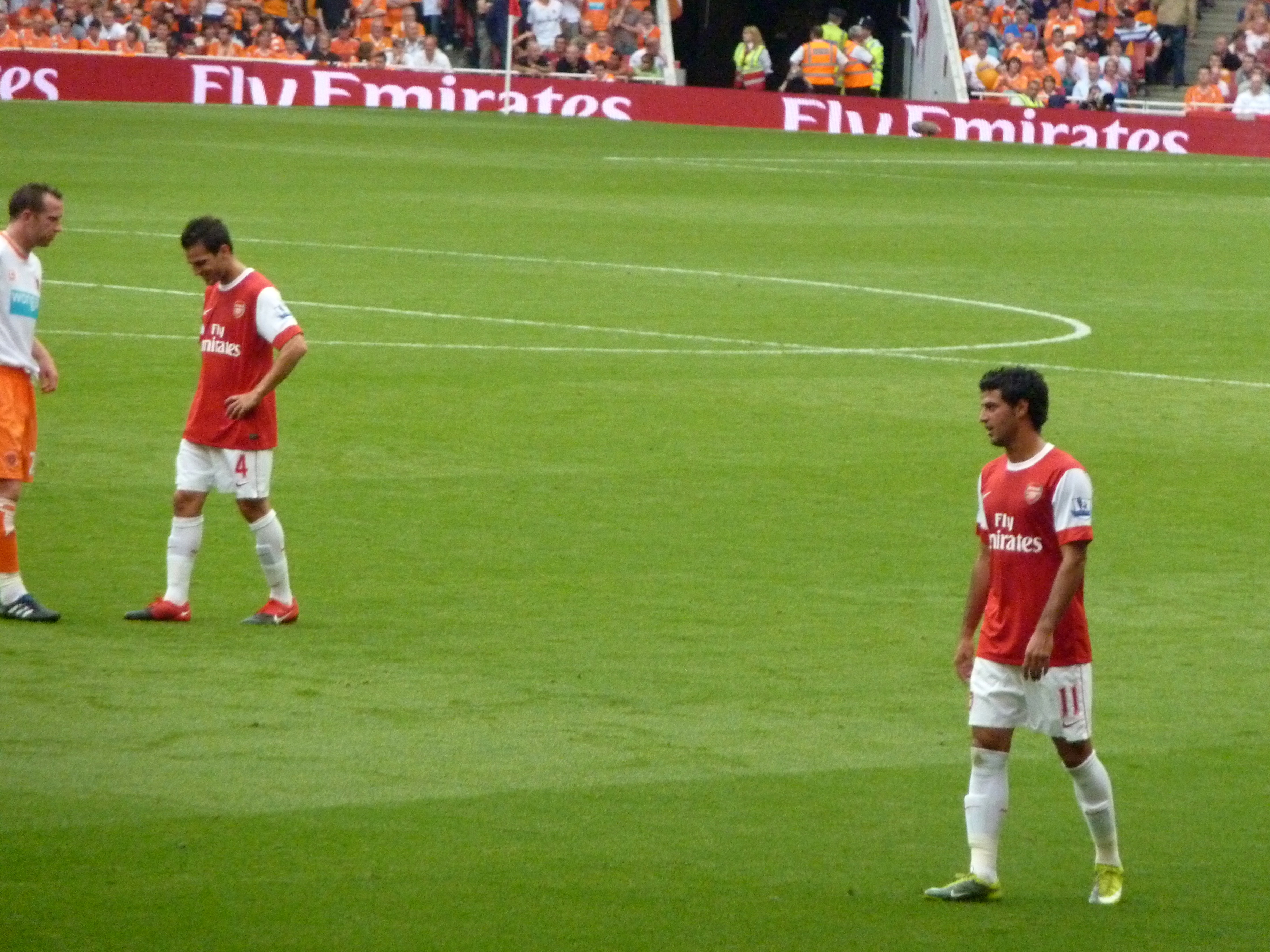 Cesc Fabregas and Carlos Vela of Arsenal.